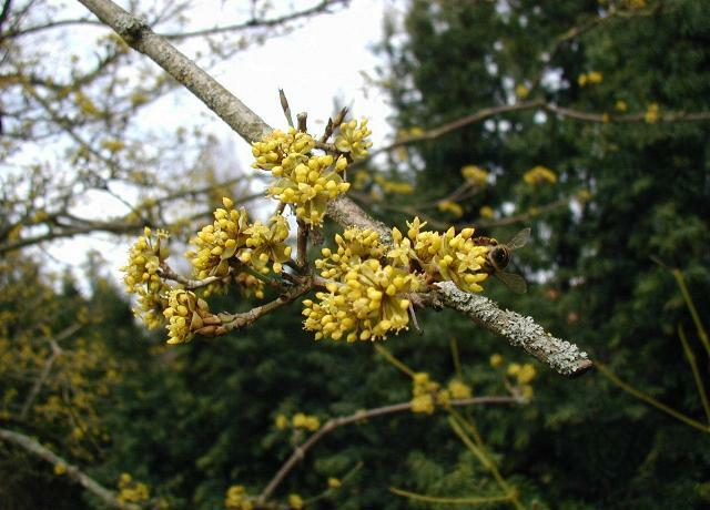 Cornus mas: Flowers